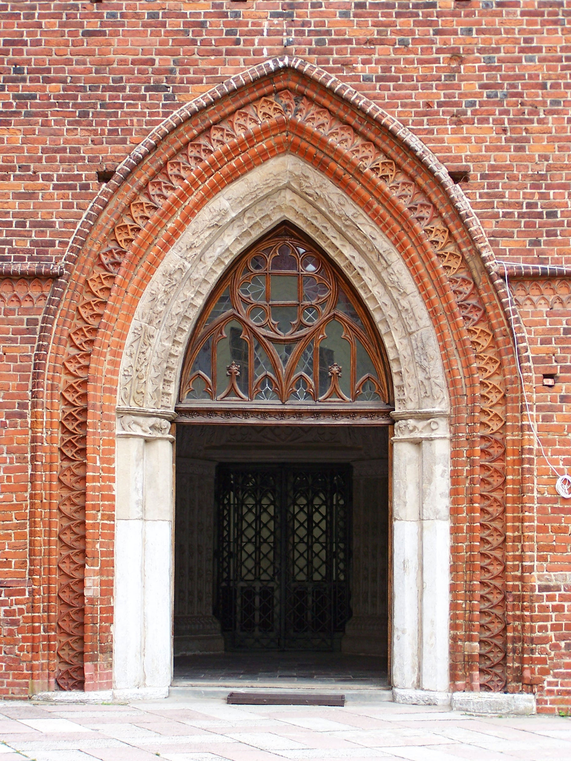 Main portal of Frombork Catherdral (Poland).